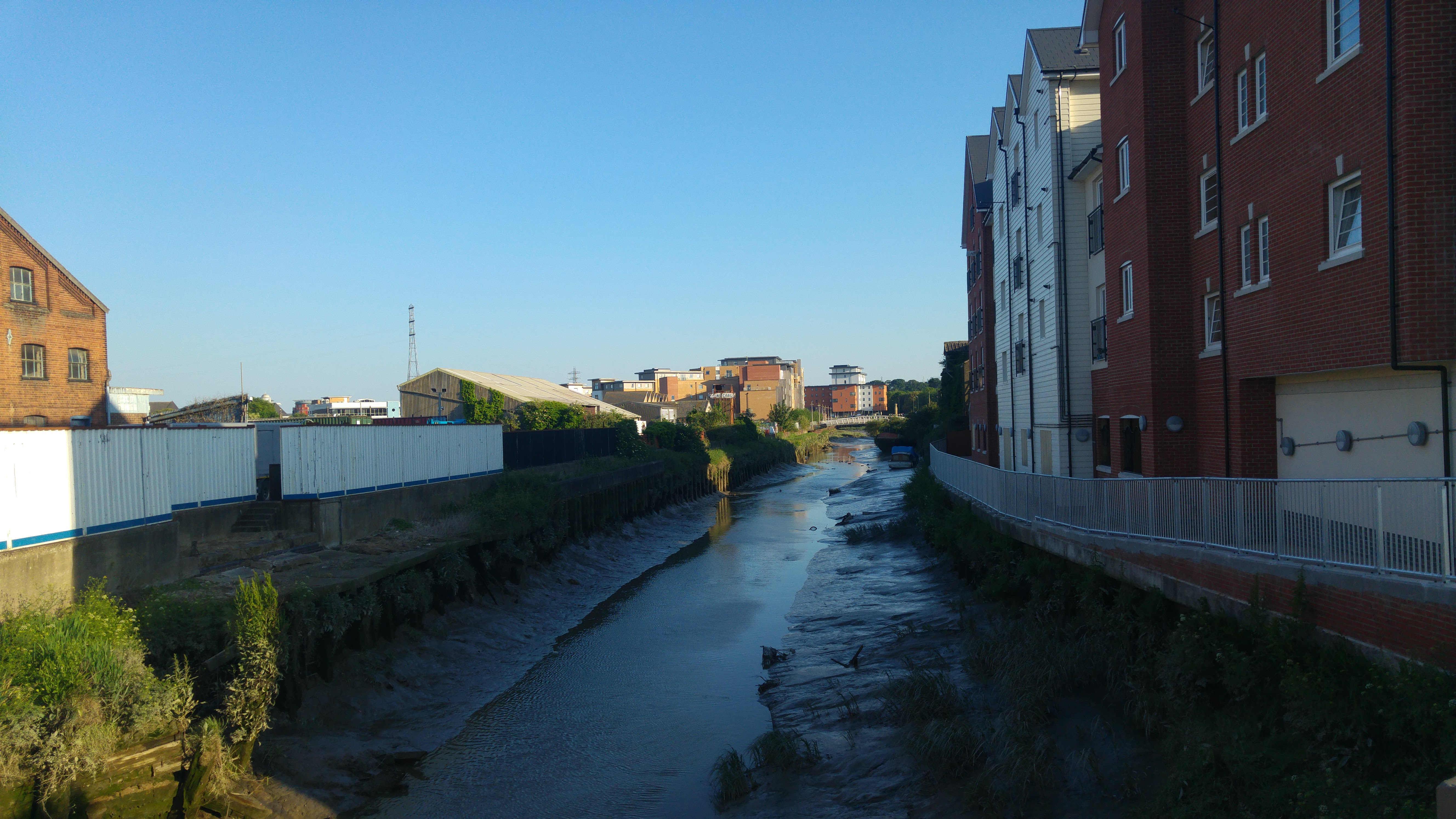 A view down the River Colne, looking towards Wivenhoe and Rowhedge. The recent developments along the river are plain to see.